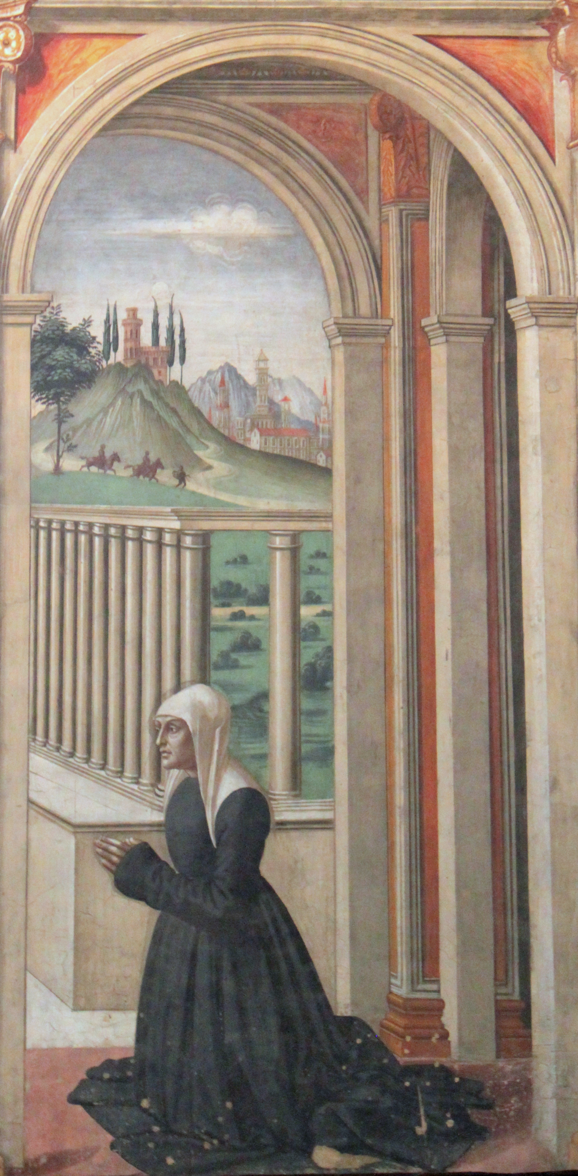 Domenico Ghirlandaio and workshop, Portrait of Francesca Pitti, 1486–1490, fresco, Tornabuoni chapel, Santa Maria Novella, Florence